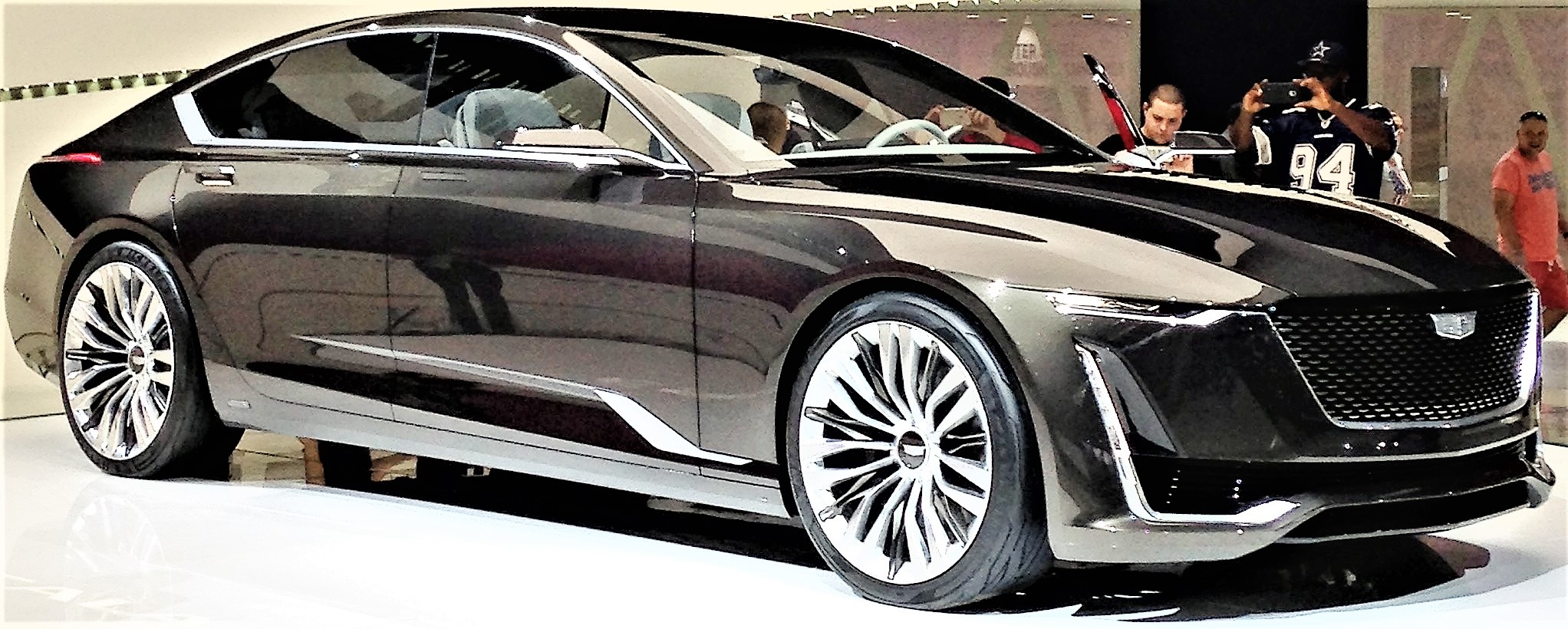 Cadillac Concept on display at the 2016 LA Auto Show